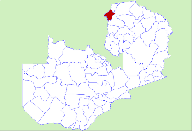 Nchelenge District, Zambia. Adapted from Rarelibra's work in Wikimedia Commons.